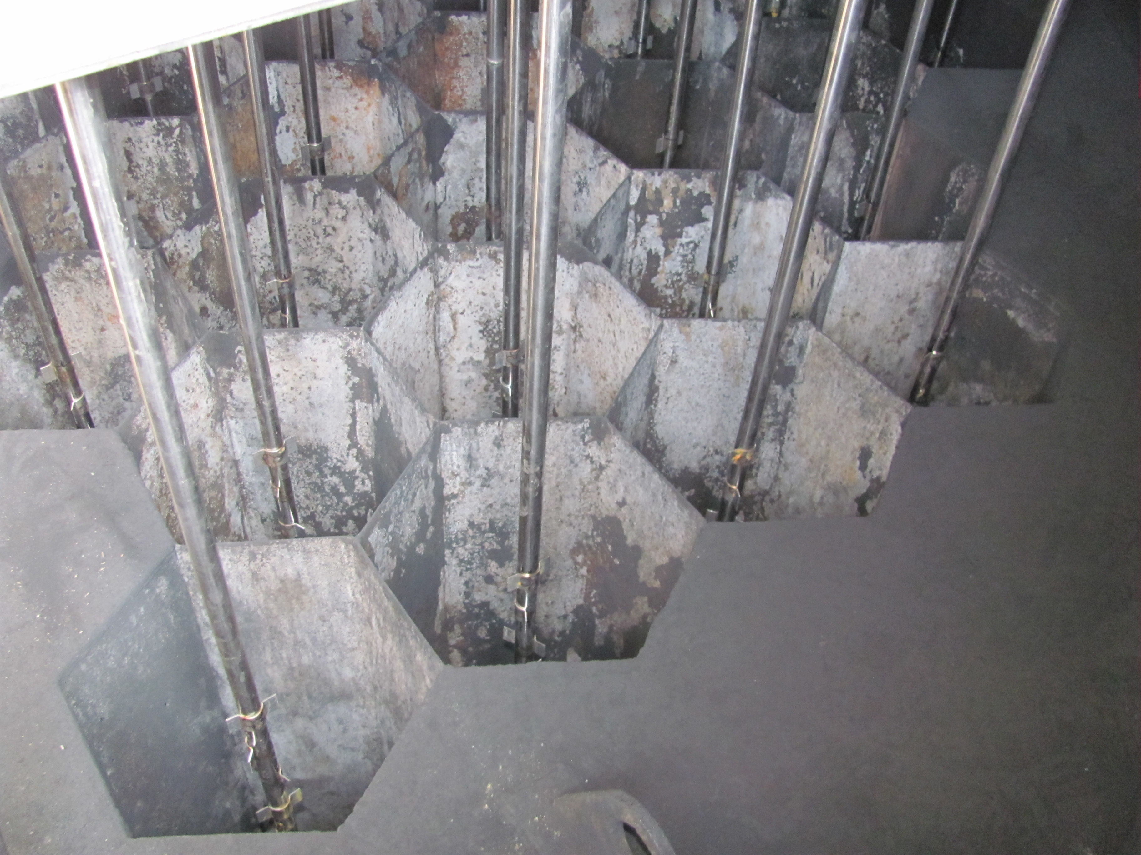 The interior of an electrostatic precipitator. The rods (coronal electrodes) are negative, the honeycombs positively charged